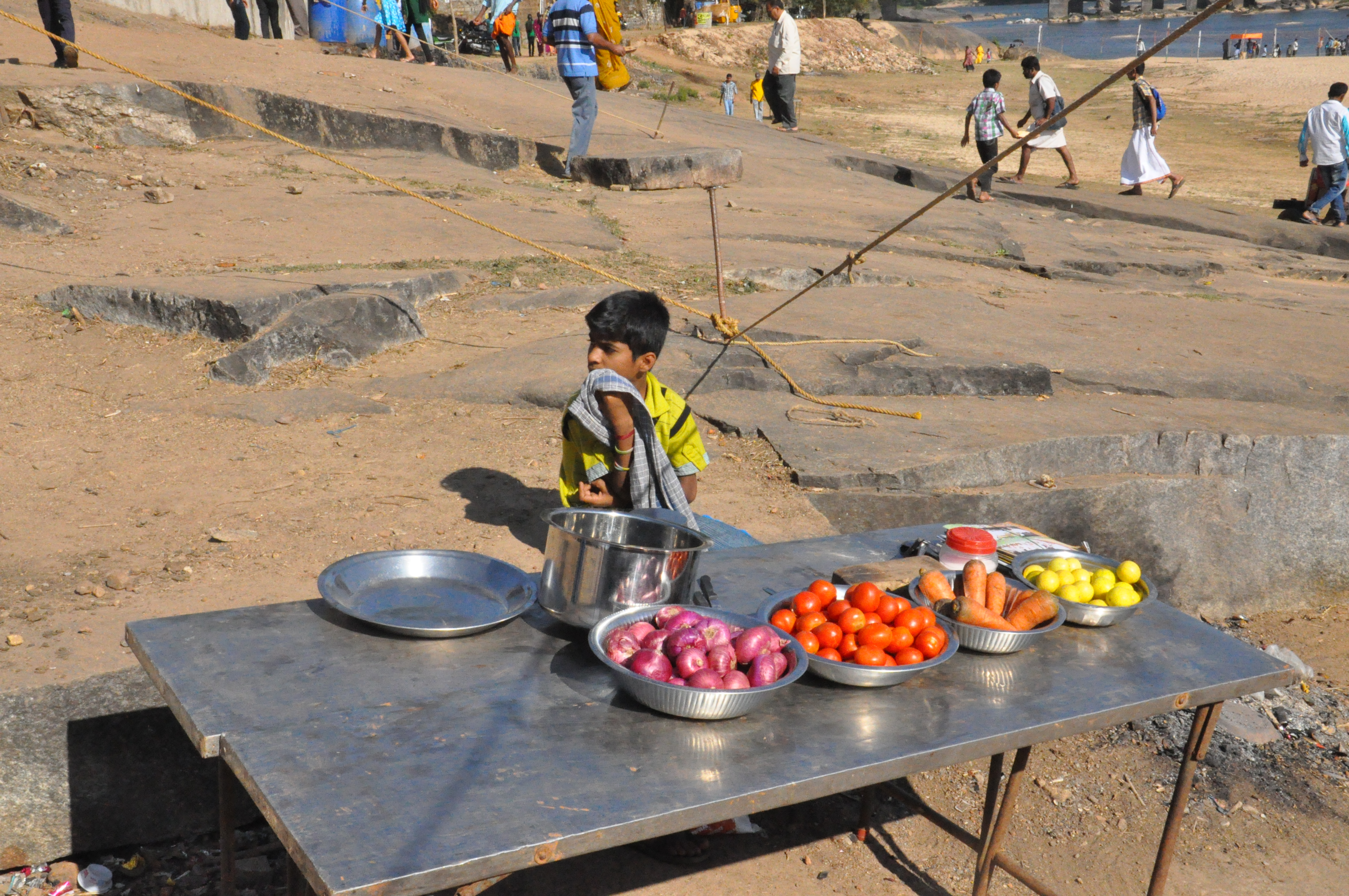 Famous Yellammavase Jathre January 2013 in Thirthahalli. Banks of Tunga River